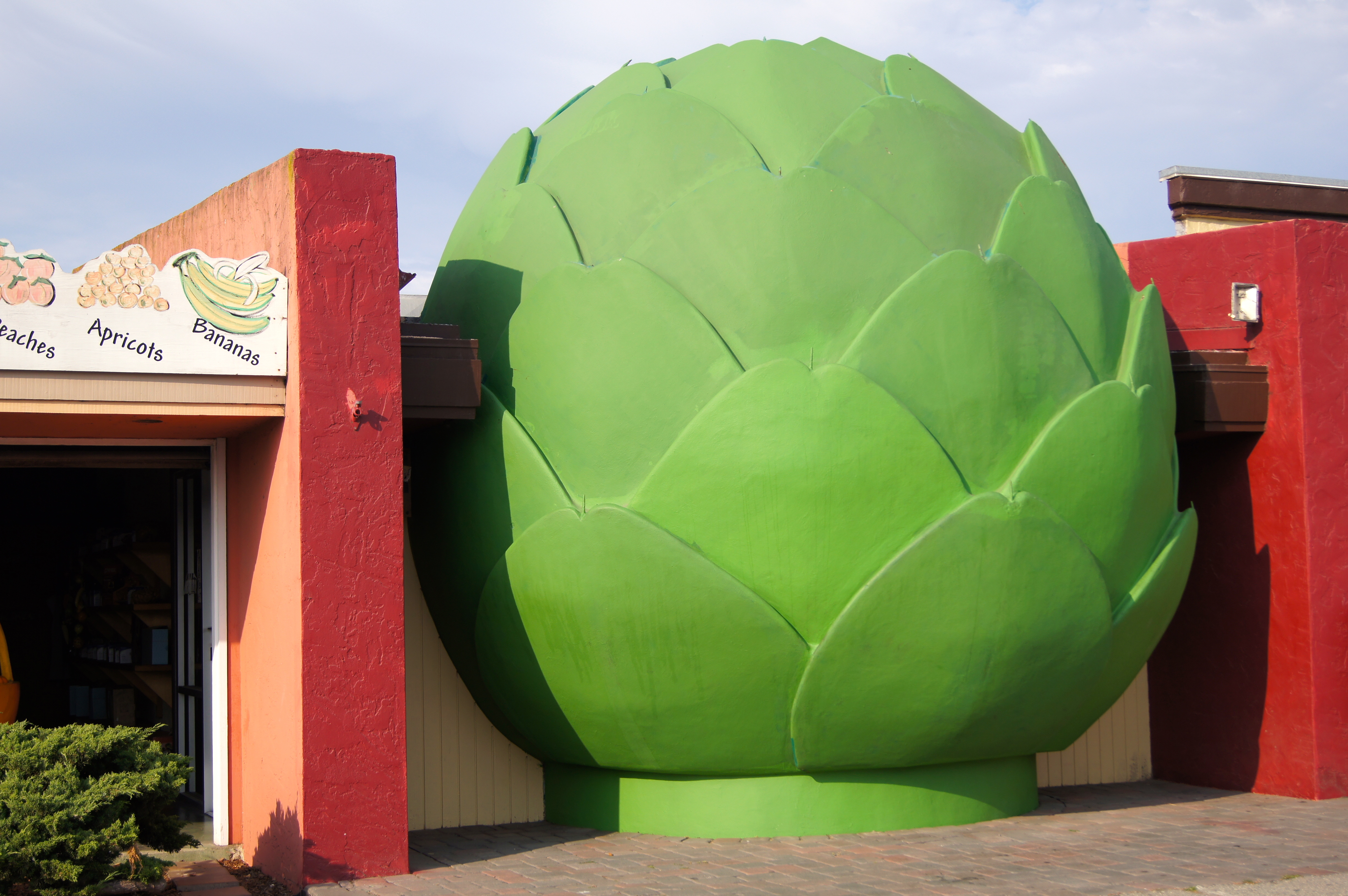 Giant Artichoke Resturant, with the Artichoke Room